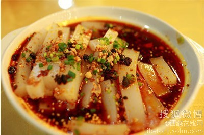 Tibetan Street food, usually found in Lhasa, Some major City, can also be found in Area Tibetan people living in Nepal and India.